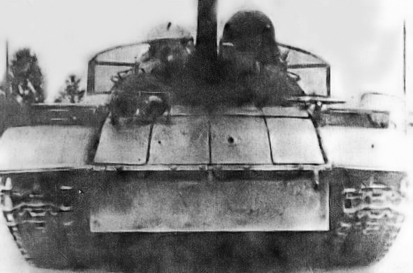 T-54 fitted with stand-off armour plates fitted to hull front and wire mesh screens around the turret to provide protection against ATGM.